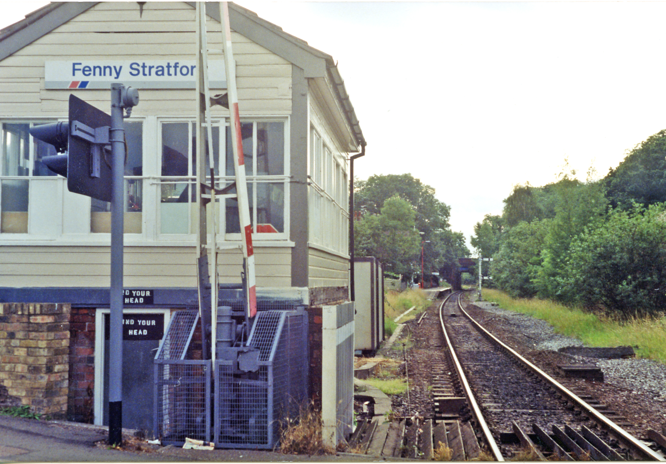 Fenny Stratford signalbox and station, 1991. View westward, towards Bletchley: ex-LNWR (Oxford) - Bletchley - Bedford - (Cambridge) line. This is the surviving section, between Bletchley and Bedford, of the formerly - and still potentially - important 'Varsity Line', which survived the 'Beeching Axe', the rest being closed 1/1/68. Although there were modern road barriers at this Simpson Road level-crossing, in 1991 they may still have been controlled from the signalbox, but the latter was since removed when the signalling was modernised. The single-platform 'station' seen ahead remains in use, albeit unstaffed, even though it is only a mile away from Bletchley station.